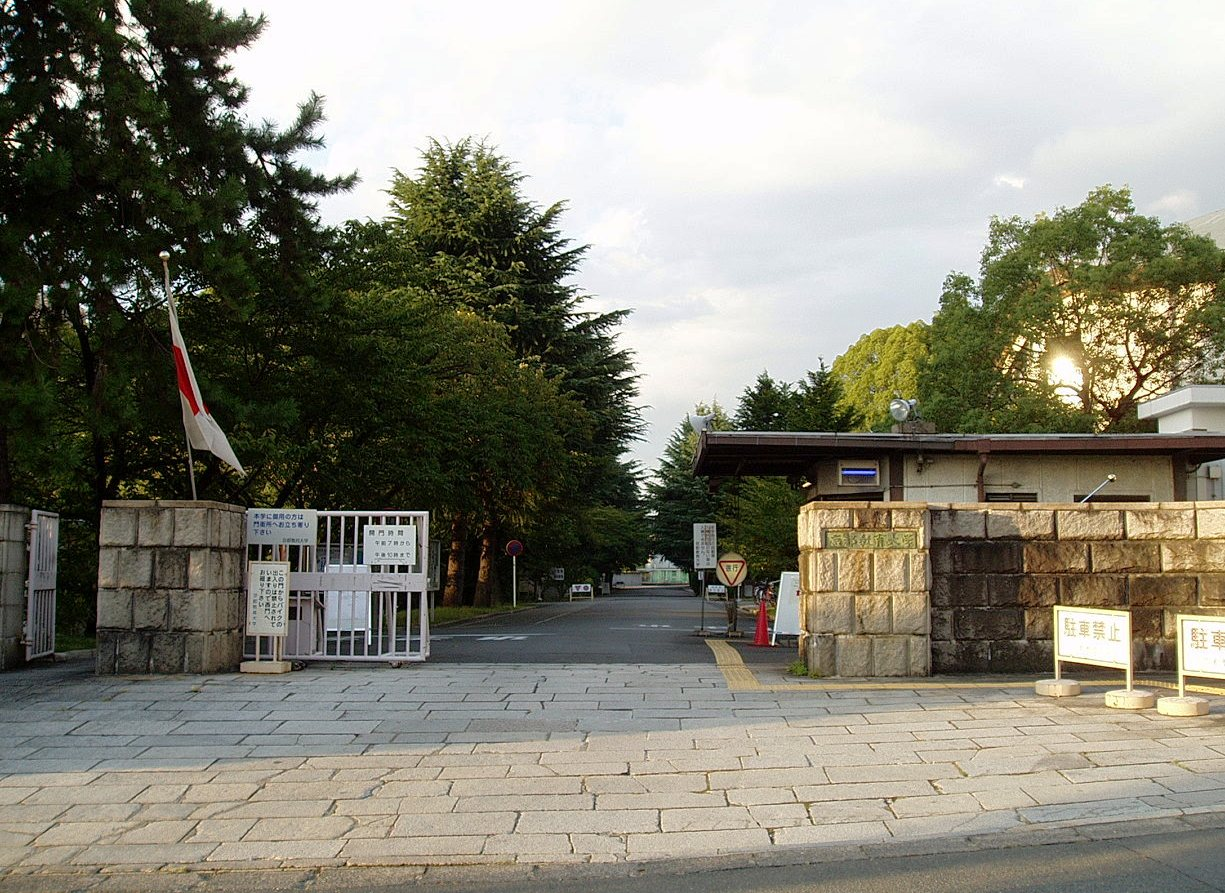 The main gate of Kyoto University of Education, located in Fushimi-ku, Kyoto, Japan.